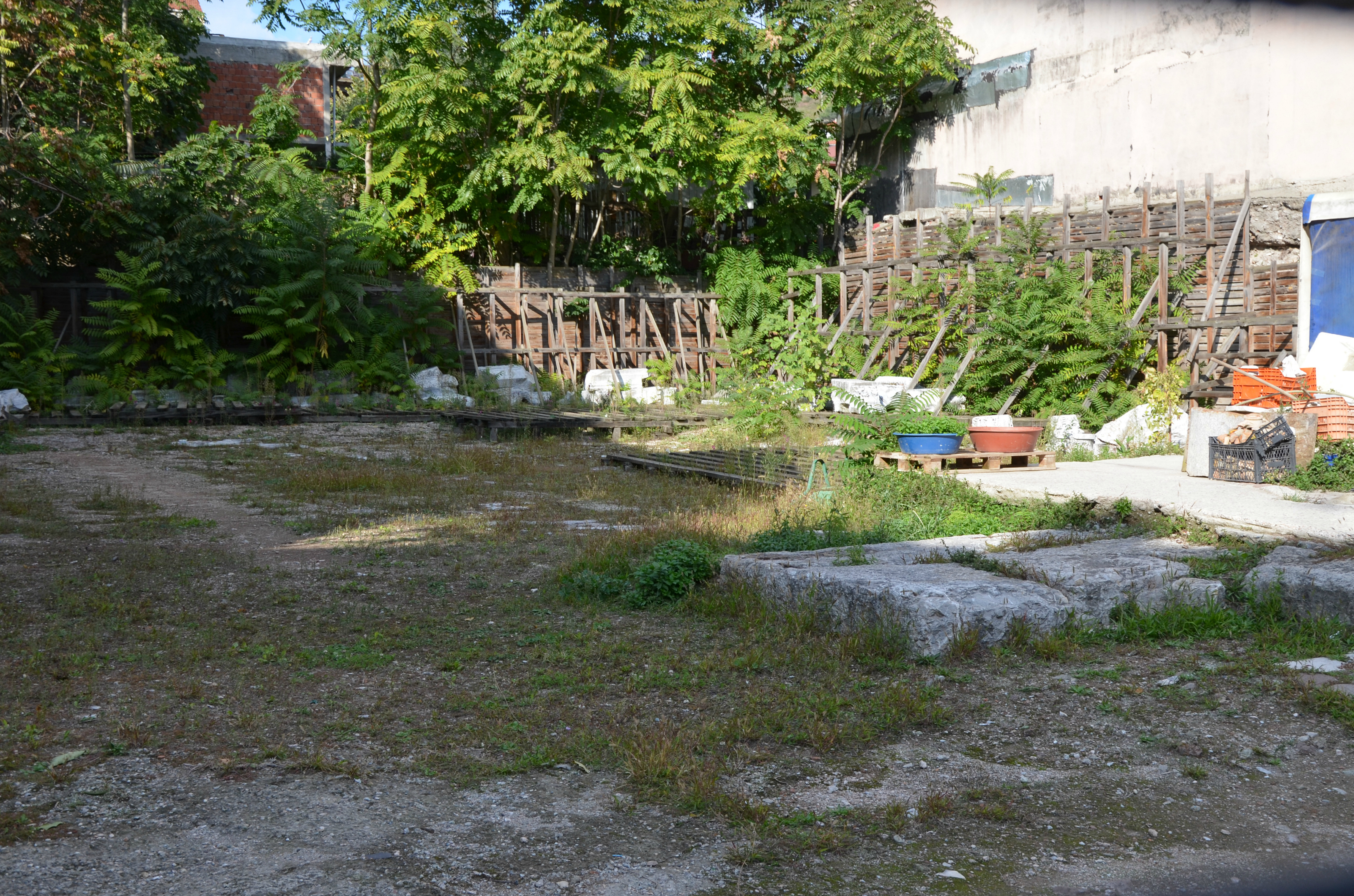 Excavation site at Çukurbağ following the demolition of the modern building, Izmit (ancient Nicomedia), Turkey